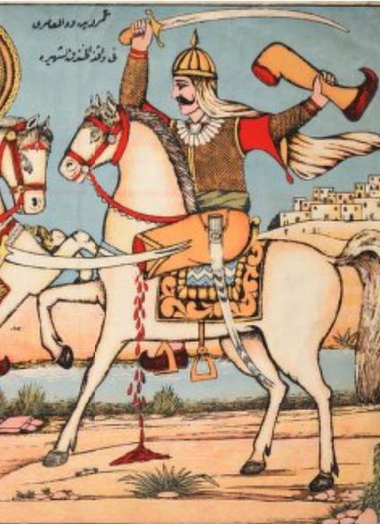 Combat between Ali ibn Abi Talib and Amr Ben Wad near Medina